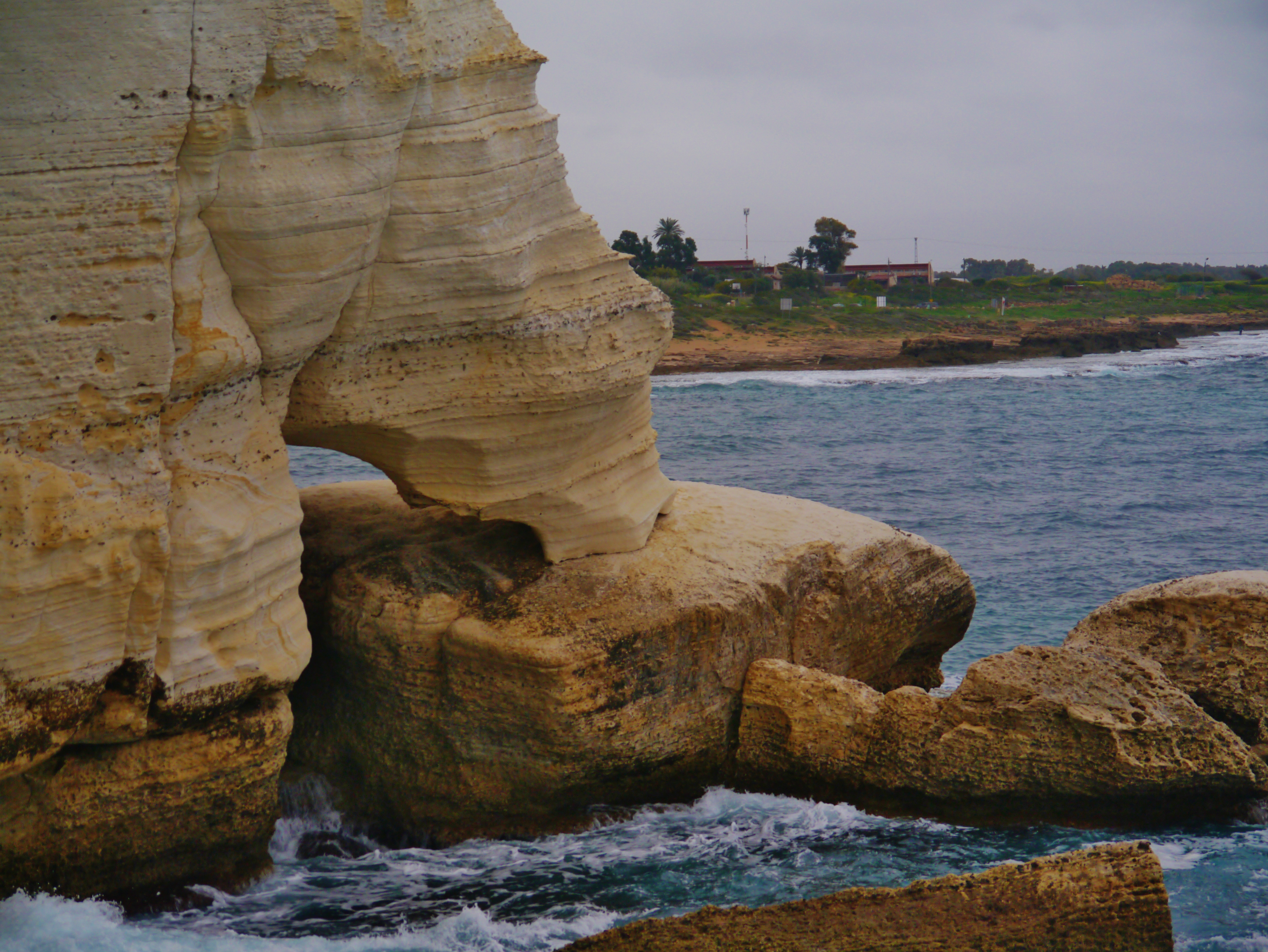 Cliffs of Rosh HaNikra, Israel